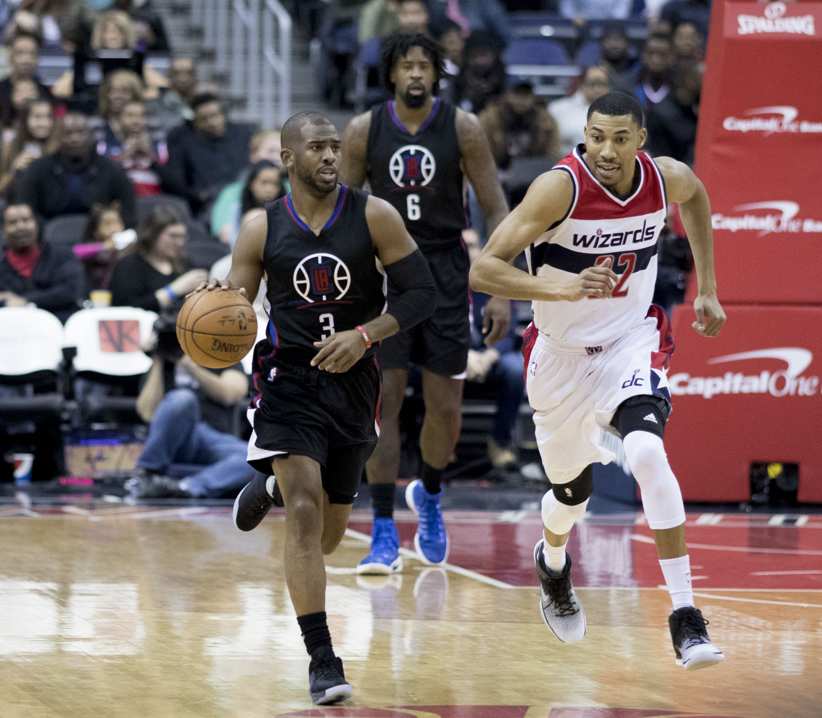 Clippers at Wizards 12/18/16